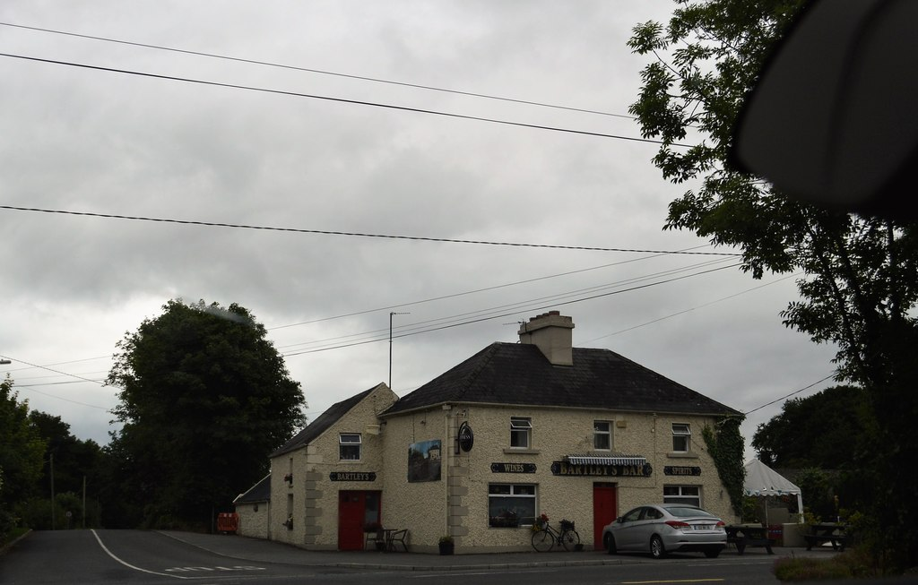 Bartley's Bar